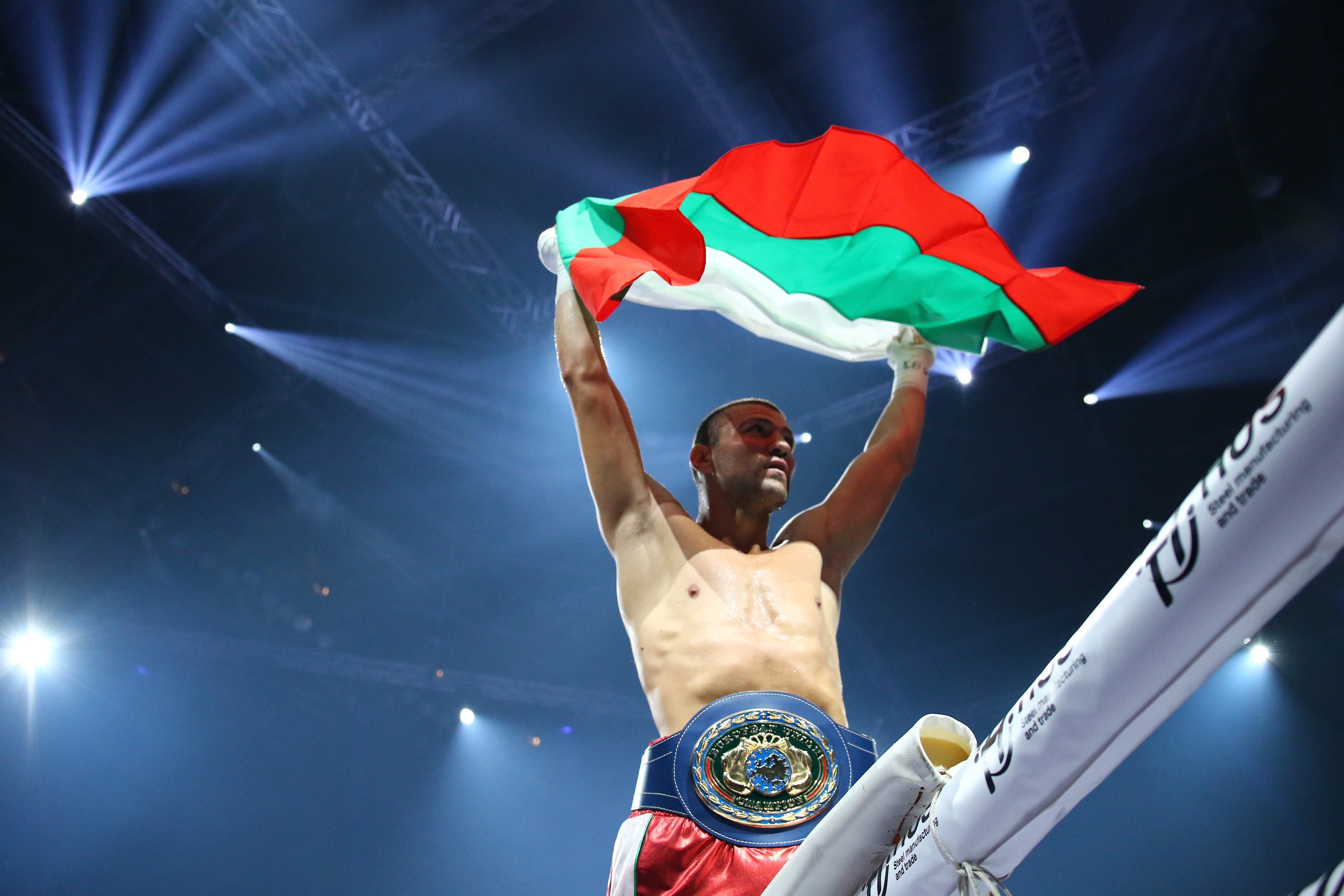 Tervel Pulev - Bulgarian professional boxer. He has held the WBA International cruiserweight title since December 2019 and previously the European Union cruiserweight title in 2018.[1] He is the younger brother of heavyweight boxer Kubrat Pulev. This photo has been taken in the country: Unknown